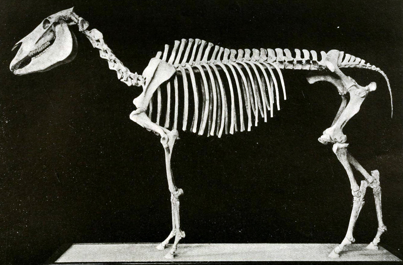 A mounted skeleton of Equus scotti at the AMNH, constructed out of two skeletons. From Gidley, James Williams. 1901. “Tooth characters and revision of the North American species of the genus Equus.” Bulletin of the AMNH ; v. 14, article 9.